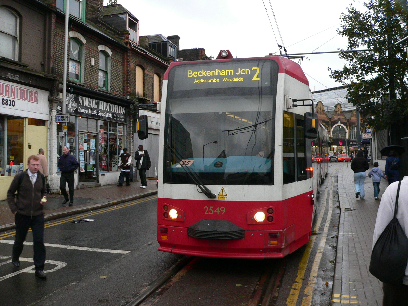 Tramlink tram 2549 on route 2 in the centre of Croydon. 2005-10-24